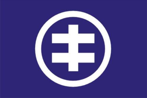 Flag of the far-right Slovak organization Slovenská pospolitosť (Slovak Brotherhood).